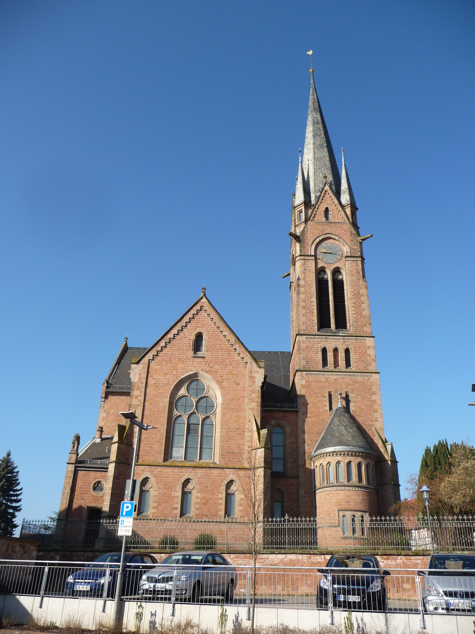 Protestant church in Eisenberg (Pfalz), Germany